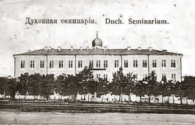 A picture of the Podillia Theological Seminary in Kamianets-Podilskiy in 1865.